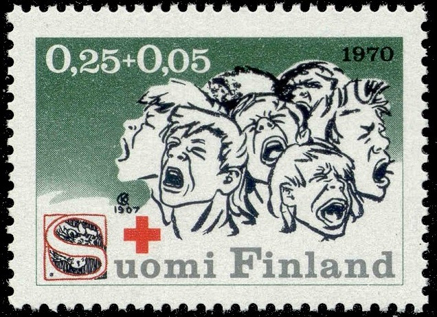 Postage stamp depicting the Seven Brothers of Aleksis Kivi